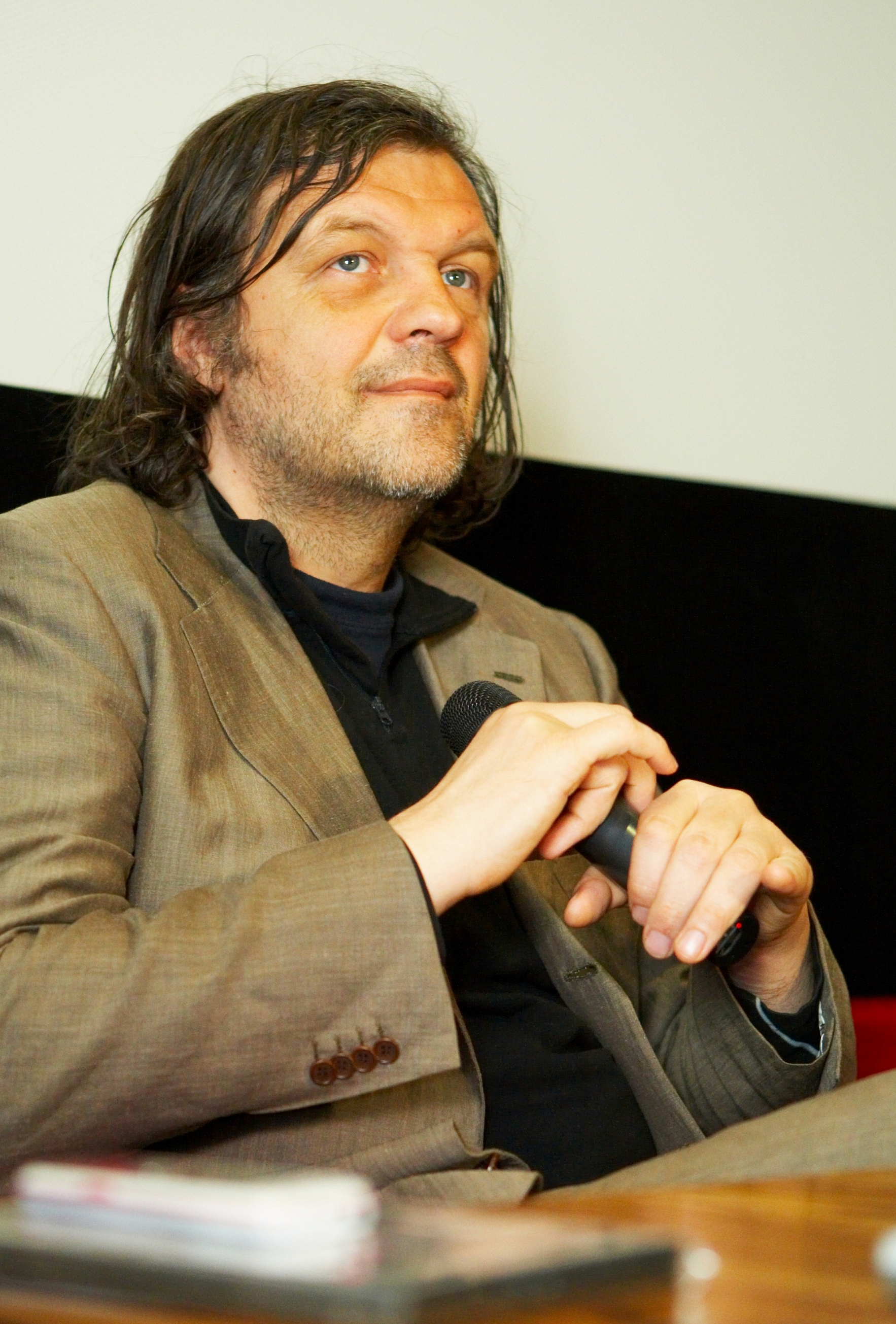 Emir Kusturica on the the press-conferention in cinema Pobeda, before the concert of his group The No Smoking Orchestra in the Novosibirsk Opera Theatre, Russia